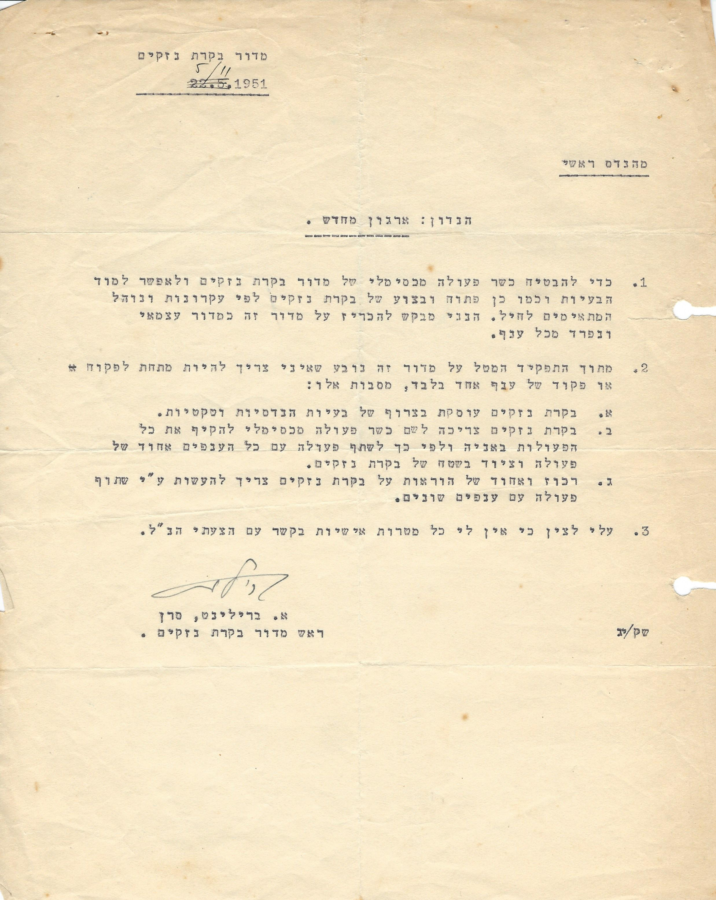 Deceleration of foundation of Damage Control Branch IDF Navy 1951